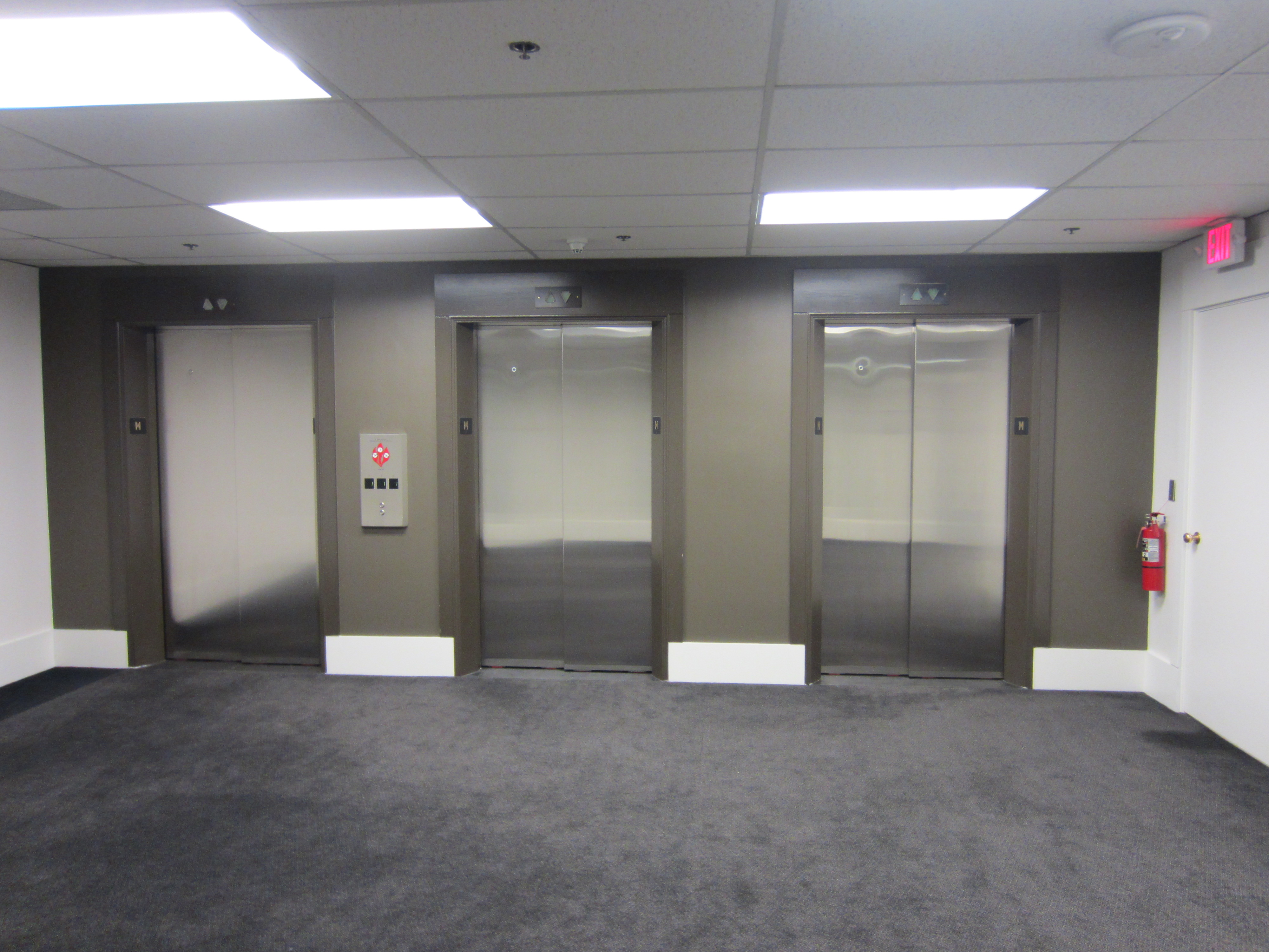 Spalding Building, Portland, Oregon (2012)